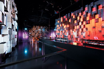 History Gallery of the National Museum of Singapore that opened in December 2006